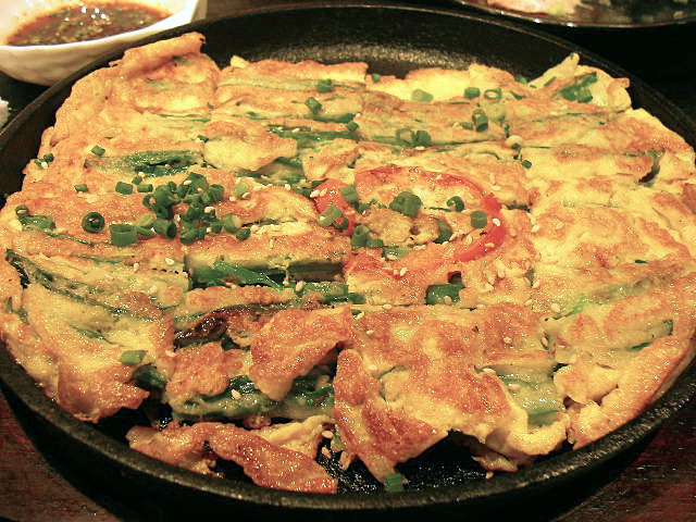 Bindaetteok (빈대떡), a Korean pancake made of ground mug bean, and bean sprouts, vegetables, and seafoods.